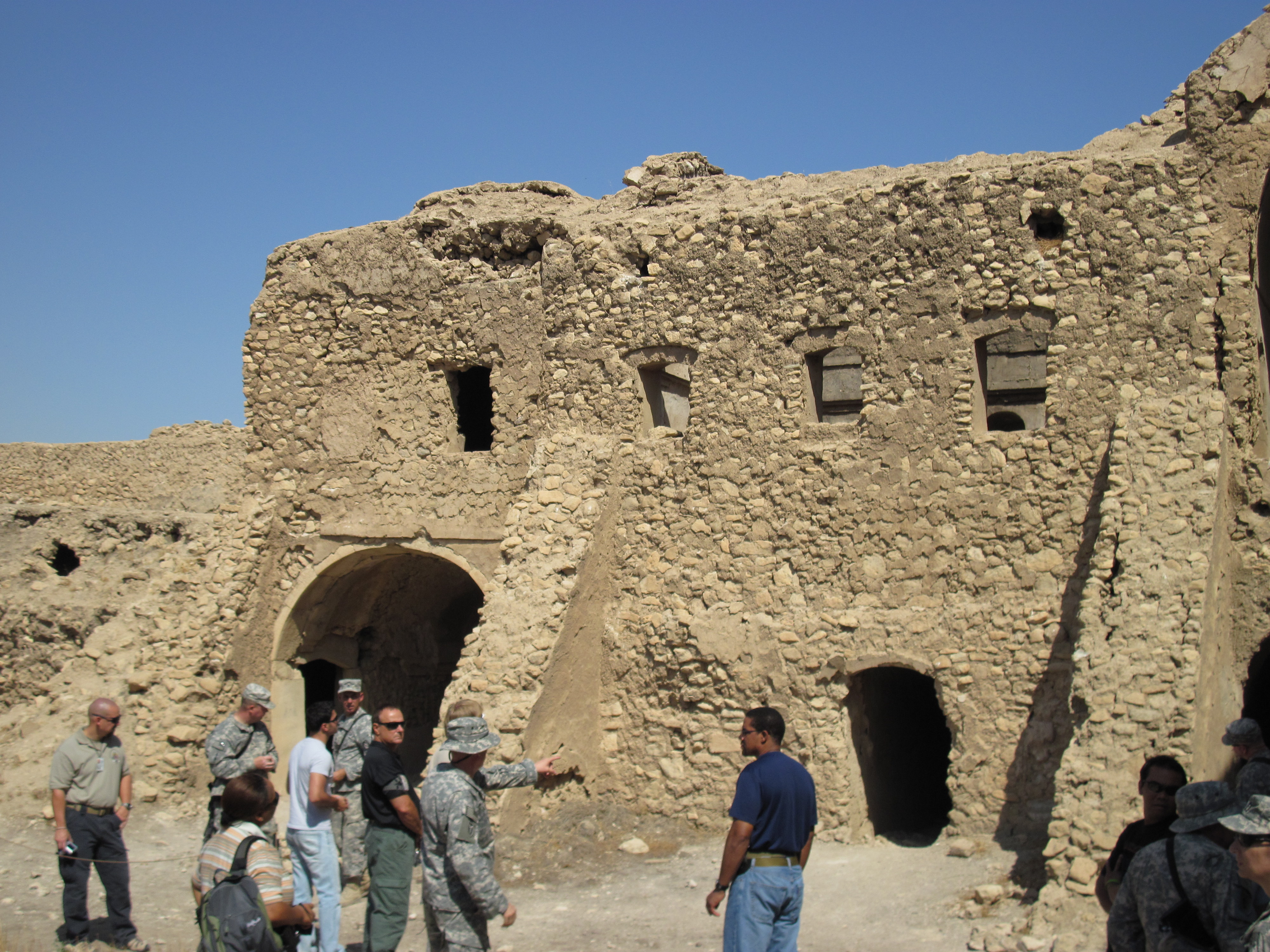 Soldiers tour the interior of the former monastery at Dair Mar Elia.